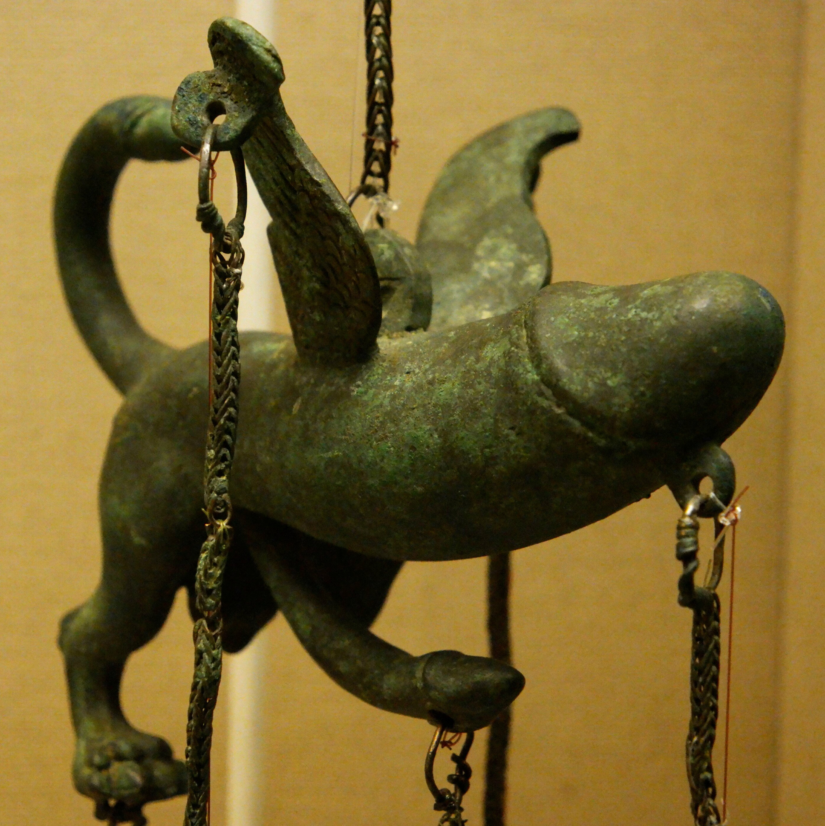 Bronze tintinabulum hung with small bells to function as a wind chime. It is decorated with a winged lion-phallus which was believed to provide magical protection against evil and to bring good luck to the household. Date 1st-Century Length: 13.45 centimetres On display: G69/dc12 British Museum: 1856,1226.1086 Title: Bronze phallic wind chime (tintinabulum)